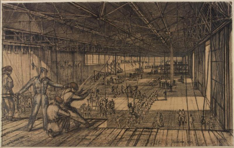 Parachute Training at Ringway image: a lengthways perspective showing an interior view of the training of paratroopers in an enormous hangar designed for the purpose, at the Parachute Training School at Ringway in Cheshire. In the foreground a paratrooper is being released from a high platform to the ground, using a parachute mechanism suspended from metal runners that form part of a framework near the ceiling. Below him and in the distance, paratroopers are undergoing a variety of training.